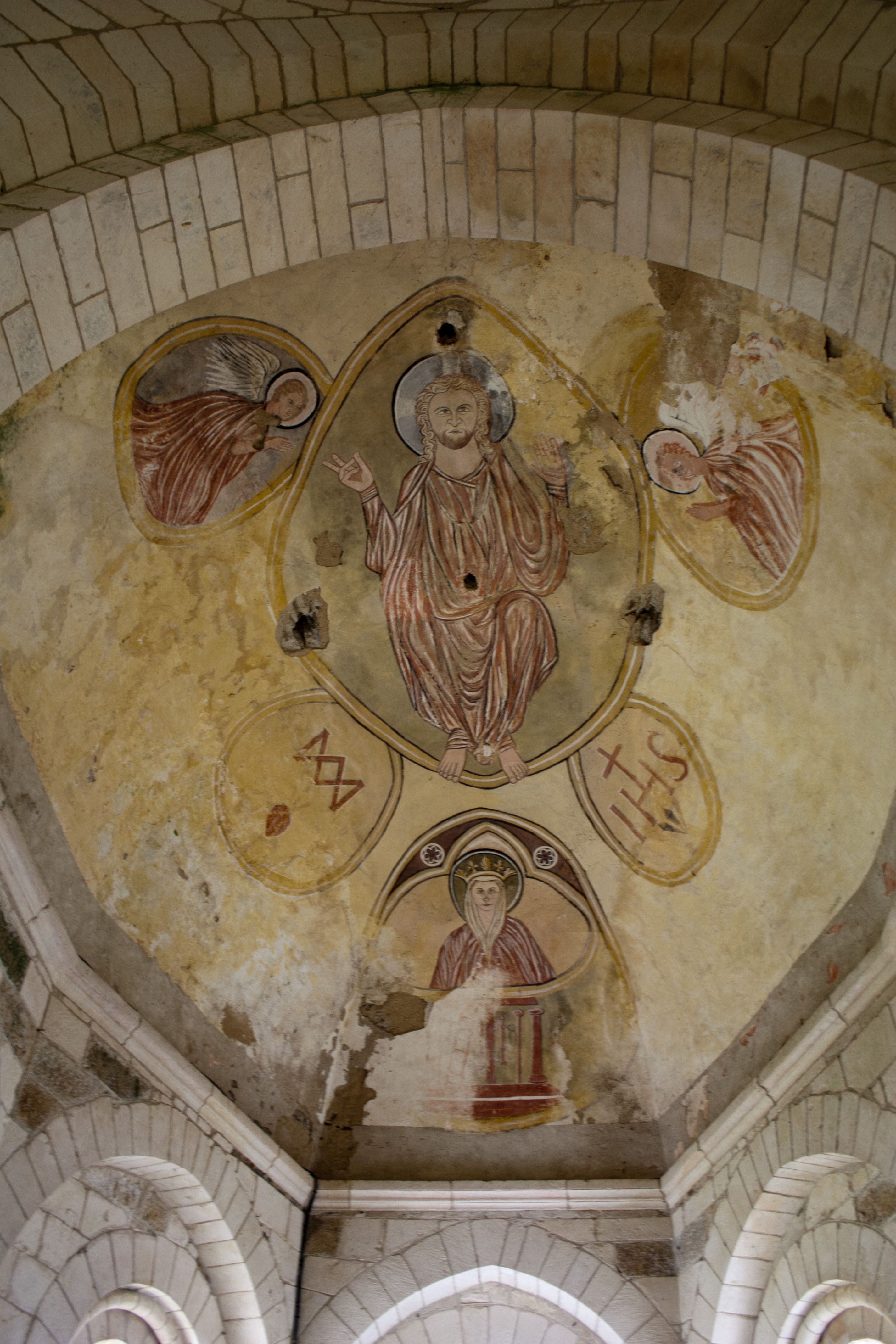 Vault of the choir, decorated with a fresco of the 15th century, clumsily retouched and amended in 1826.